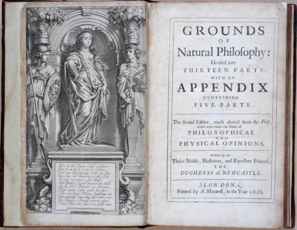 Title page and frontispiece from "Grounds of natural philosophy : divided into thirteen parts: with an appendix containing five parts / written by the thrice noble, illustrious, and excellent princess, the Duchess of Newcastle." by Newcastle, Margaret Cavendish, Duchess of, 1624?-1674. London : A. Maxwell, 1668.